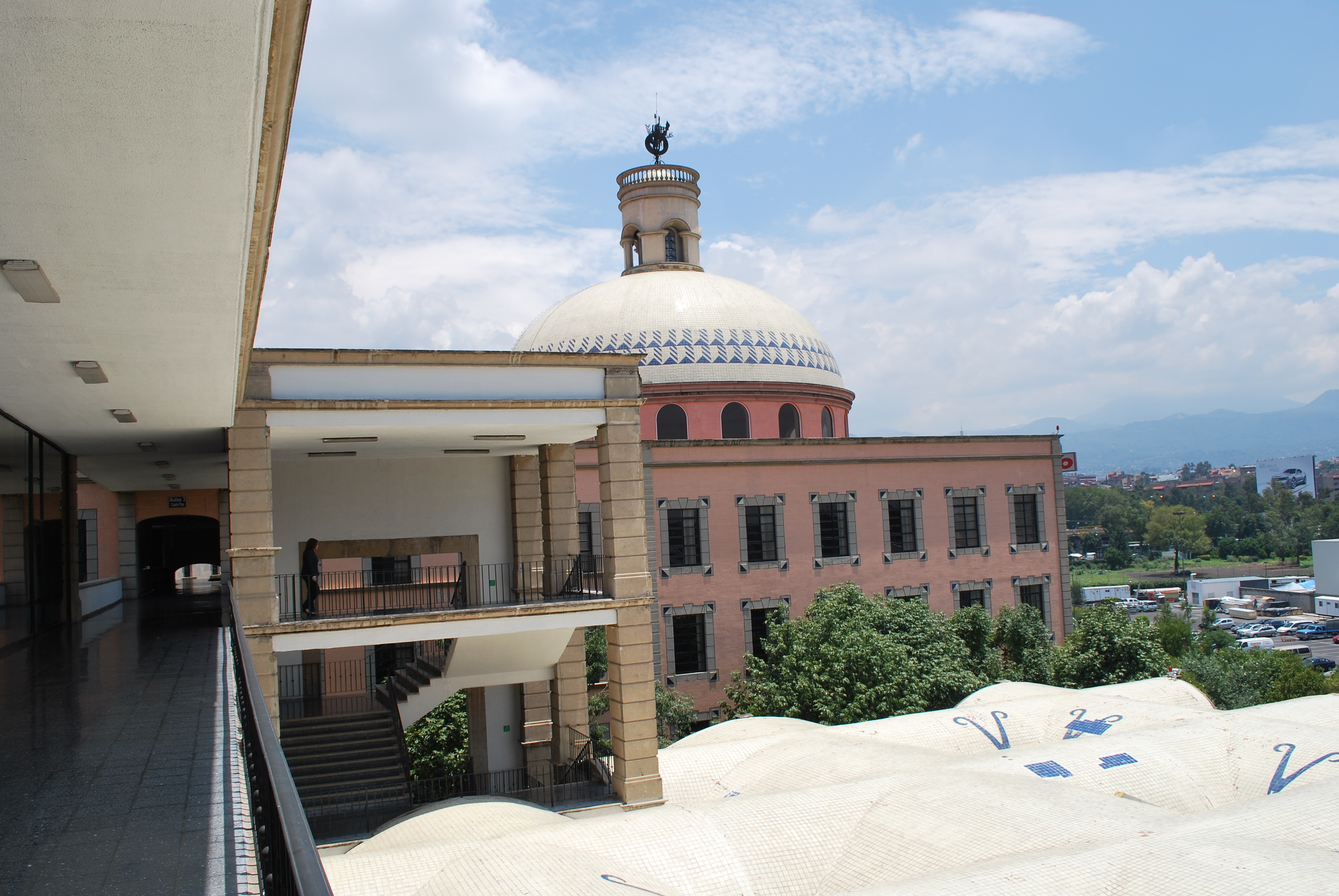 View from the hallway between Aulas 3, and Aulas 2 that connects both buildings, at ITESM-CCM.